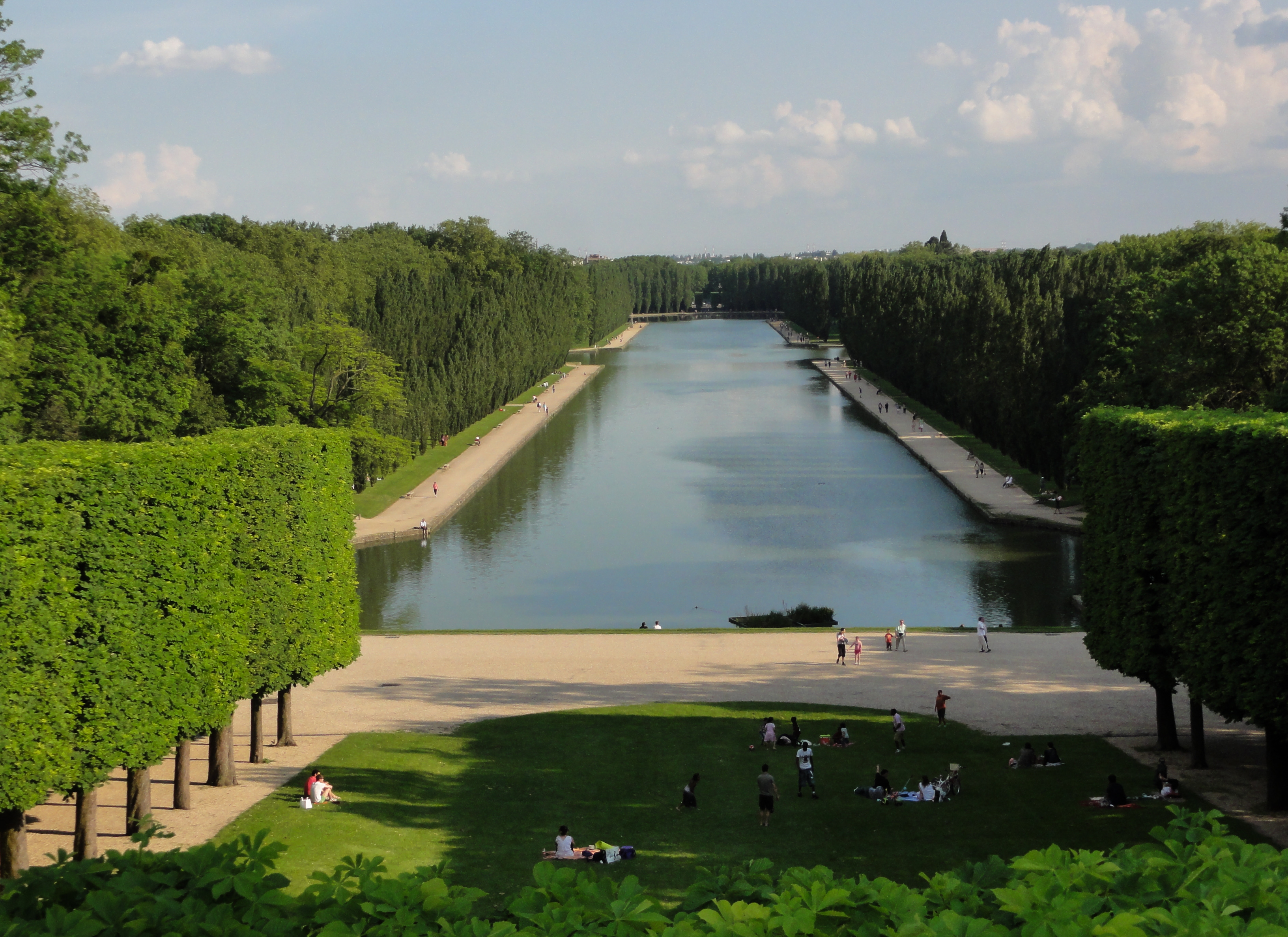 Parc de Sceaux, Hauts-de-Seine, France